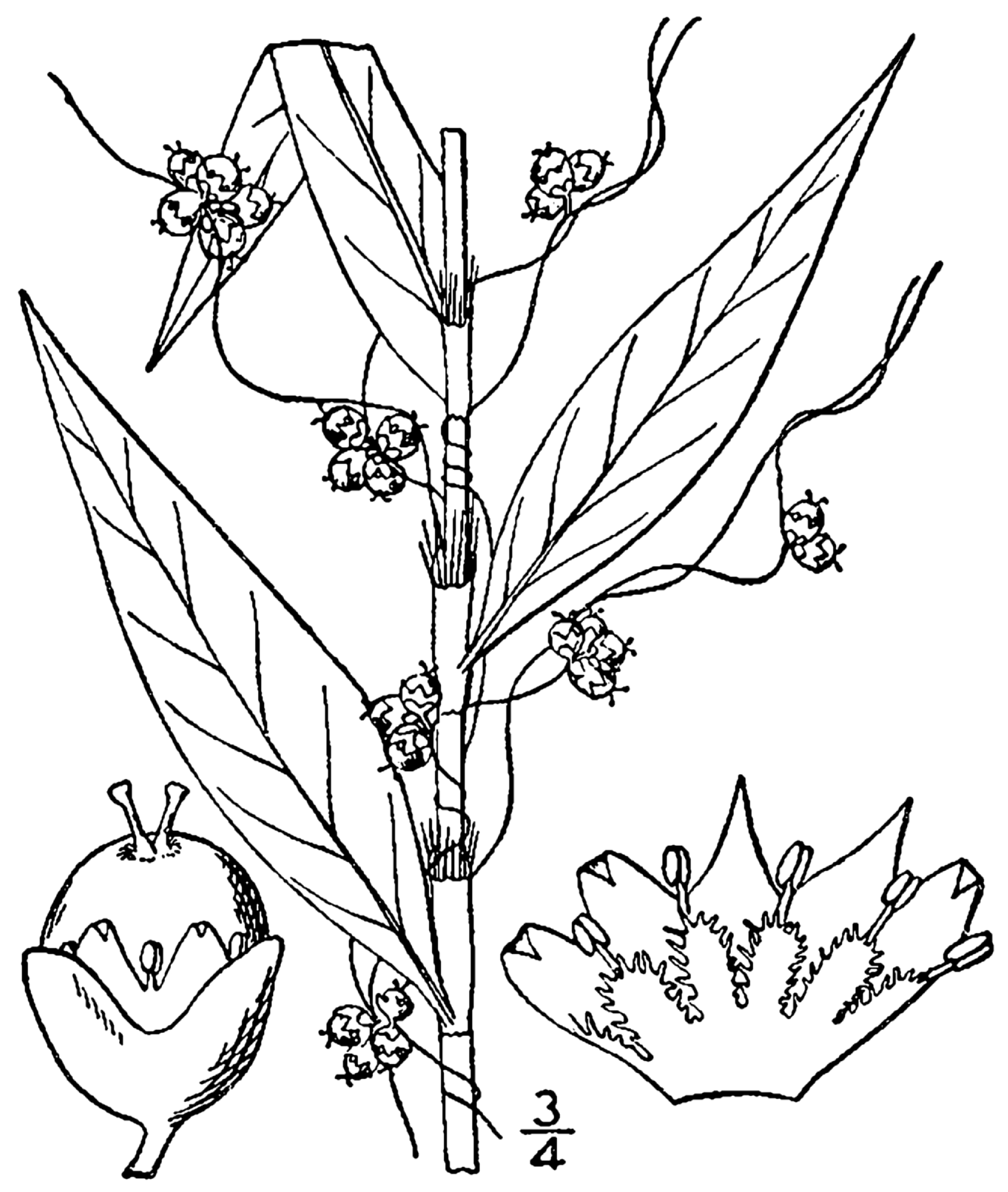 Cuscuta campestris